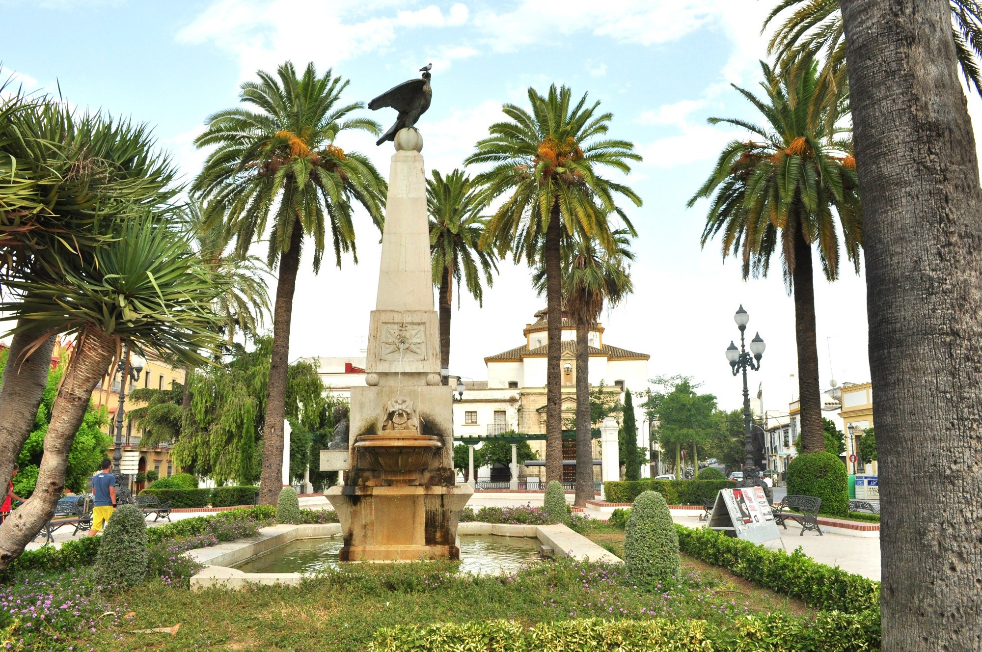 Angustias Square, the Chapel of our Lady of the Anguish in the back, Jerez